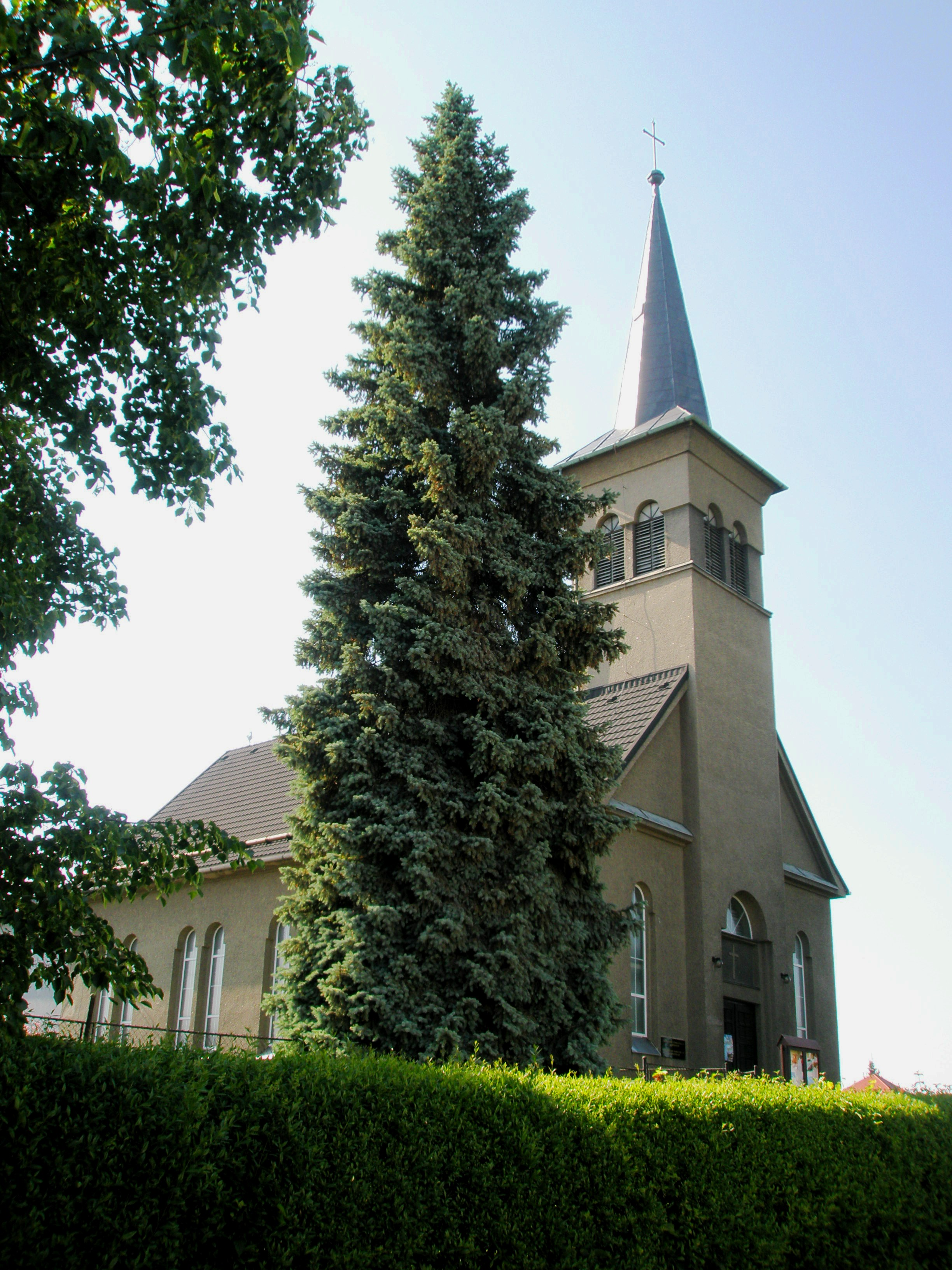 Lutheran church in Albrechtice.